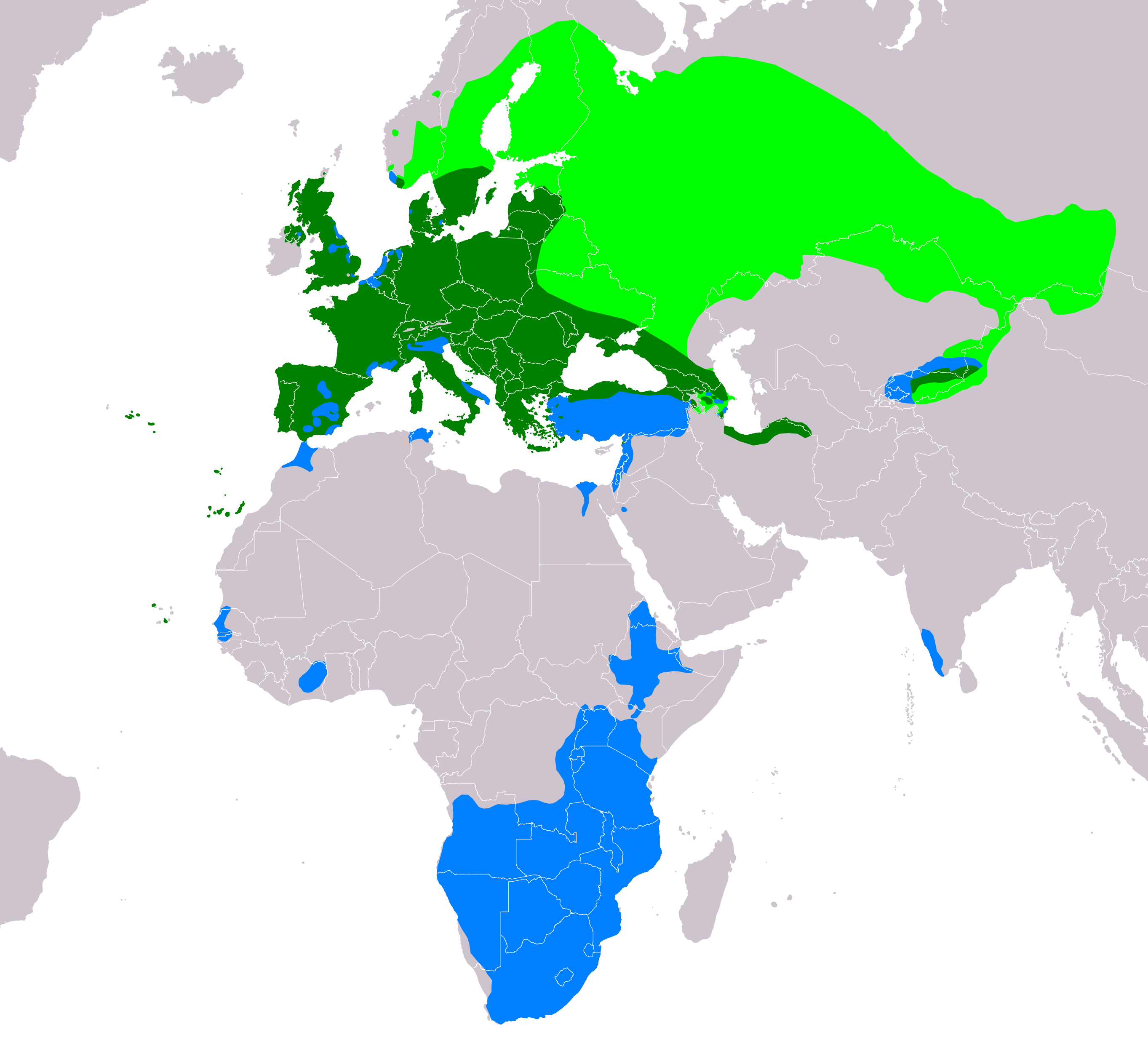 Distribution map of eurasian buzzard (Buteo buteo) according to IUCN verzion 2019.2 ; key: Legend: Extant, breeding (#00FF00), Extant, resident (#008000), Extant, non-breeding (#007FFF)